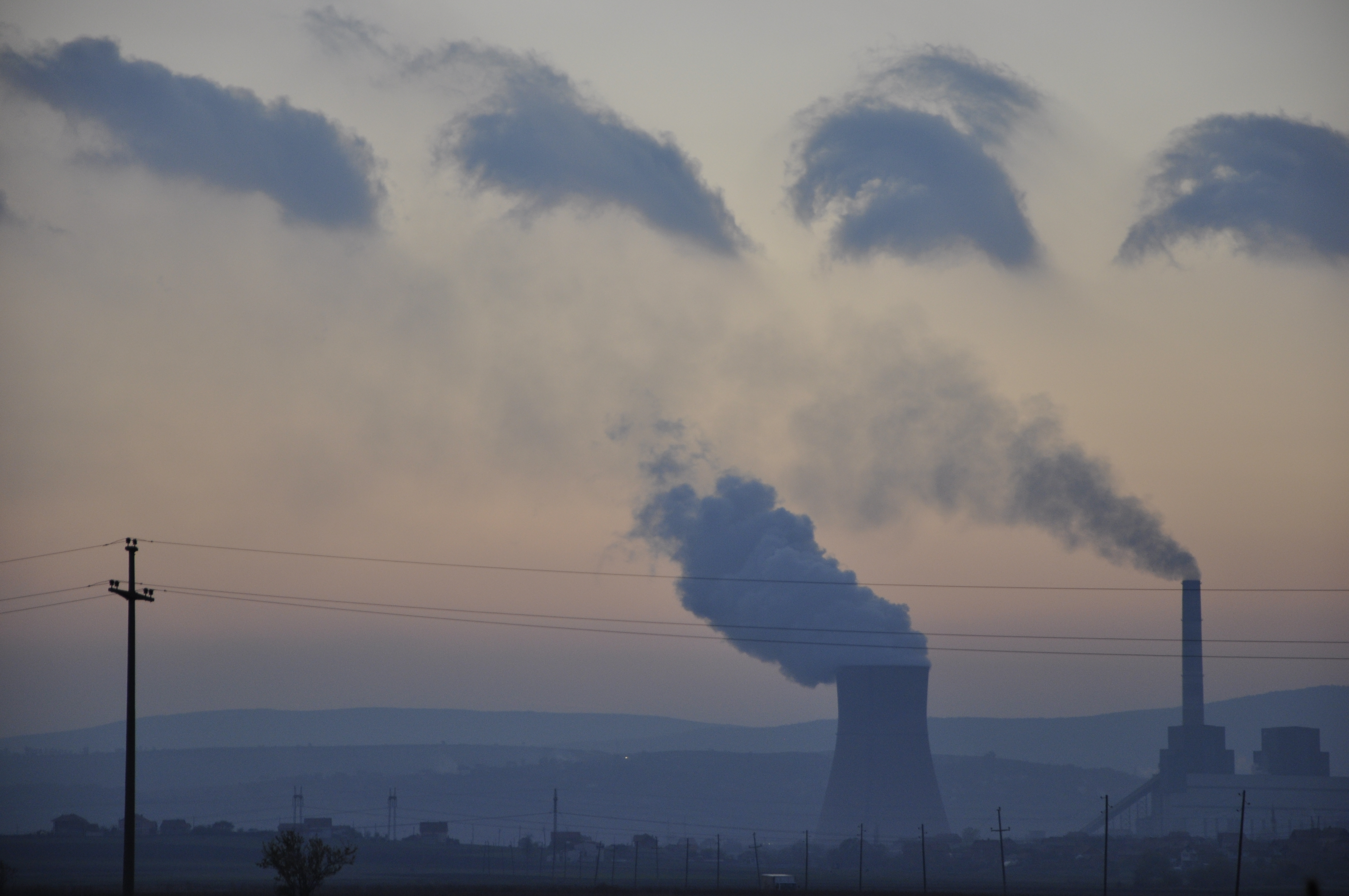 Termoelektrana Obiliq (6)